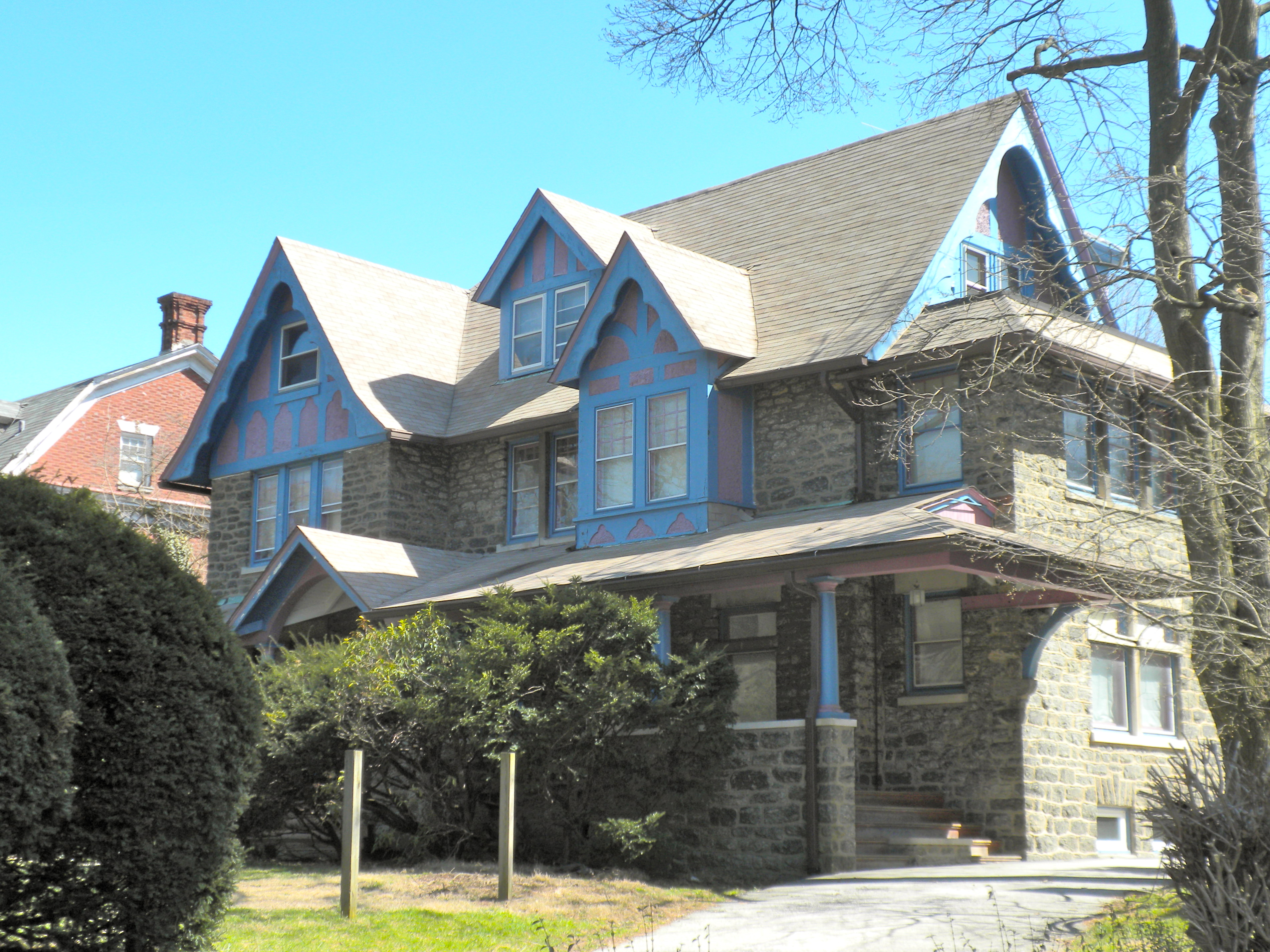 House in Overbrook Farms Historic District in Overbrook Farms neighborhood of Philadelphia. HD on the NRHP since March 21, 1985. The Historic District is roughly bounded by City Line Avenue, 58th Street, Woodbine Avenue and 64th Street. This house is on Overbrook Street between Upland Way and 59th.